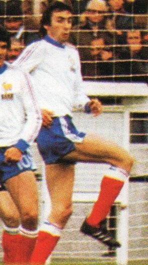 Maxime Bossis of France during the group stage match vs Italy of FIFA World Cup 1978 in Argentina.